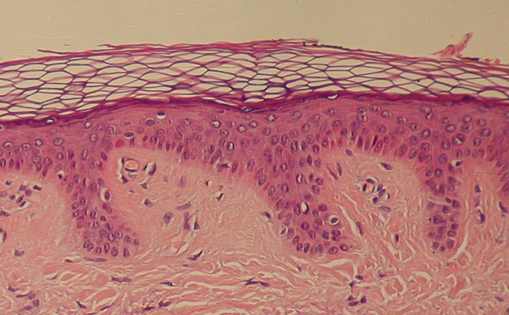 This is a hematoxylin and eosin stained slide at 10x of normal epidermis and dermis with a benign intradermal nevus. (Cropped to show only the epidermis.)